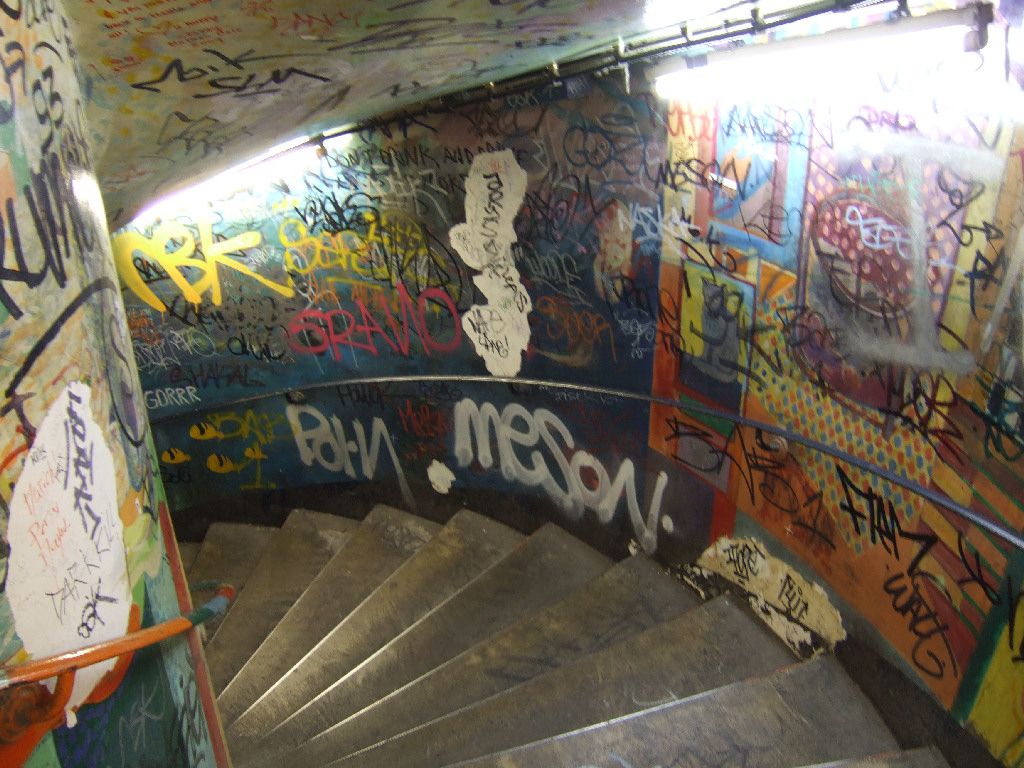 Graffiti in Paris' metro station Abesses (line 12).